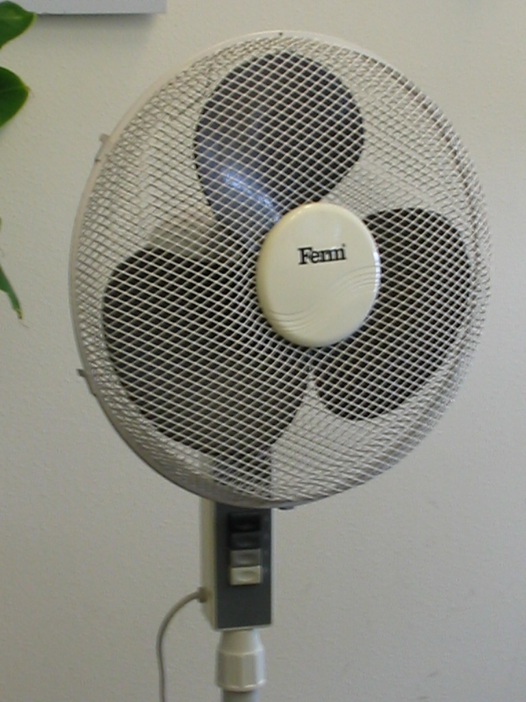 House fan on a stand.